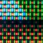 The AMOLED display detail, HTC Desire phone